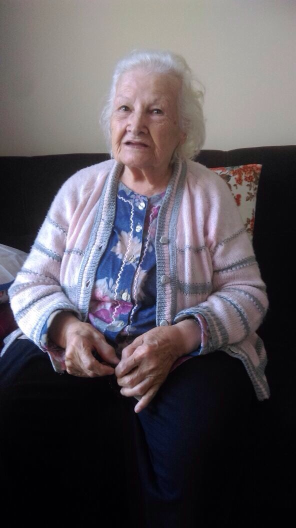 Sabahattin Ali's sister Saniye Süheyla Conkman (b.1922)